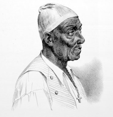 Brazilian-born slaves. Voyage Pittoresque dans le Bresil. Traduit de l'Allemand (Paris, 1835; also published in same year in German). Reprinted in Viagem Pitoresca Através do Brasil (Rio de Janeiro, 1972), and in color from original water colors, in Viagem Pitoresca Através do Brasil (Editora Itatiaia Limitada, Editora da Universidade de Sao Paulo, 1989) [Both 1835 French and German original editions were published in black/white].